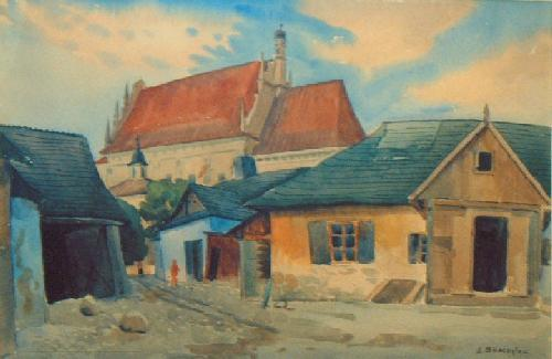 Kazimierz, waterpaint on paper, 52 x 64 cm; offered by Rempex] (Aukcja na Olimpie - Grand Hotel) for 1000 zł